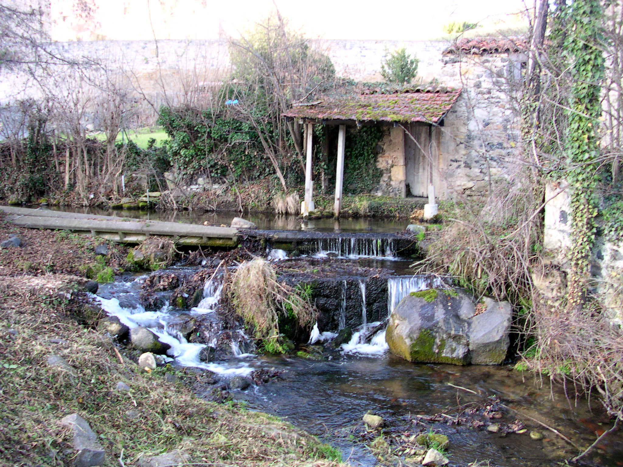 The Auzon river in the village of Chanonat (Puy-de-Dôme, France).